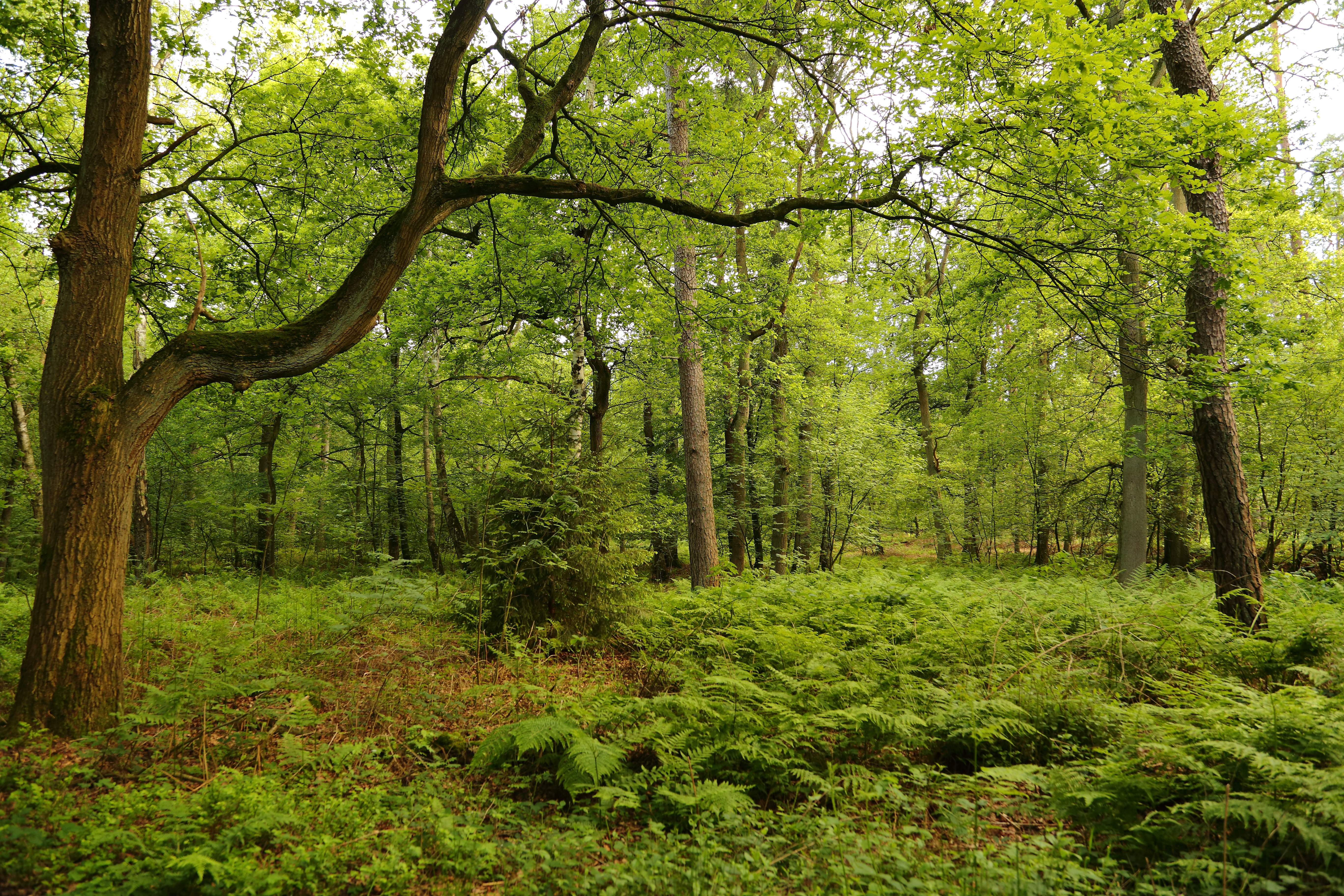 The „Wiechholz“, an ancient forest near Hopsten-Schale, Kreis Steinfurt, North Rhine-Westphalia, Germany. Since 1989 it is a nature reserve (Naturschutzgebiet/NSG) under the same name.